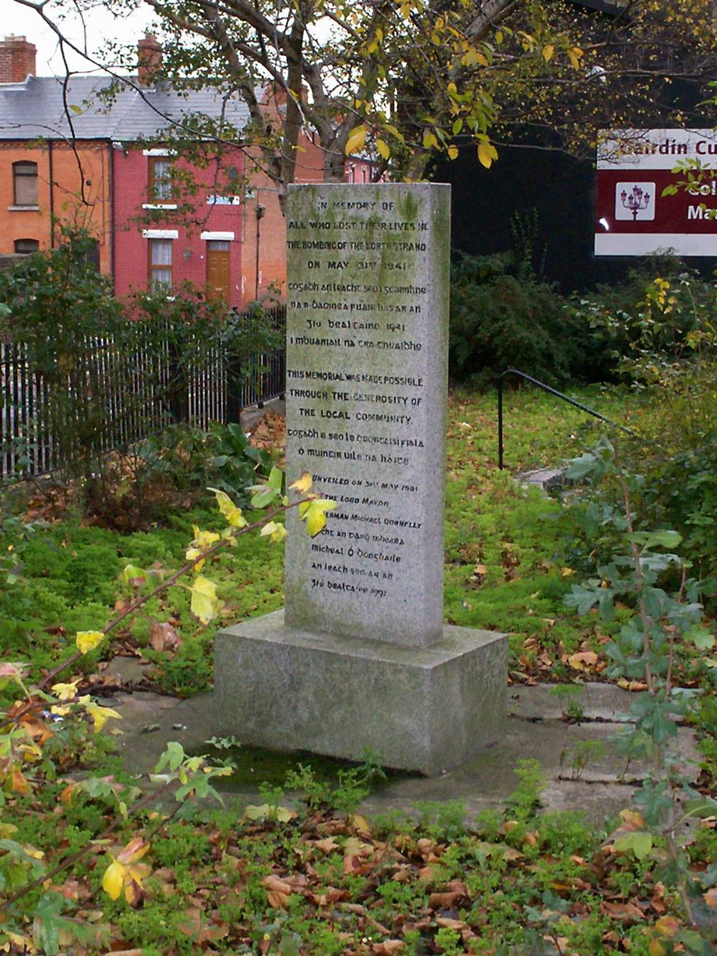 Memorial to commemorate the bombing of the North Strand by the Germans during WWII